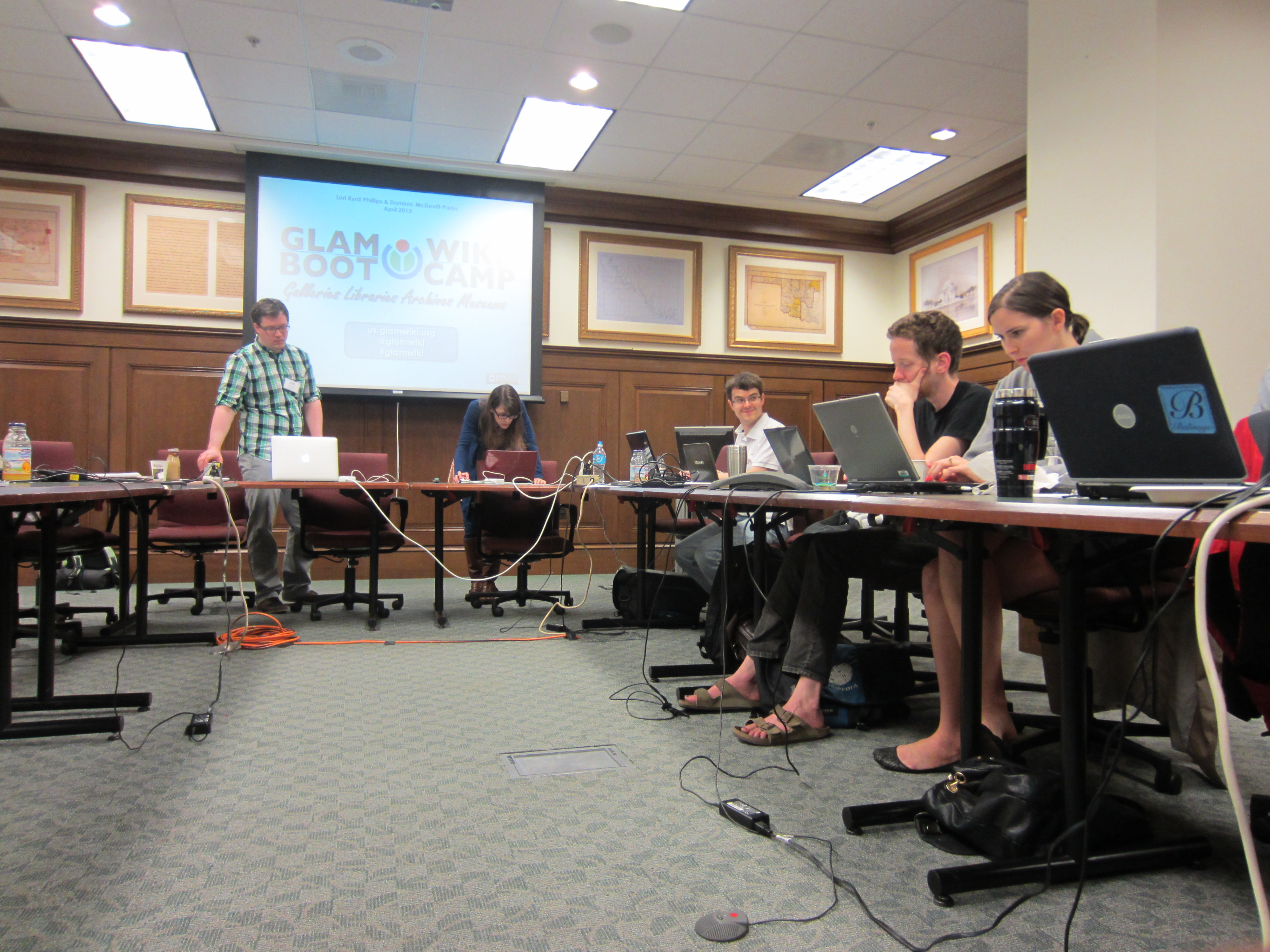 GLAM Boot Camp, Washington, D.C. (2013)